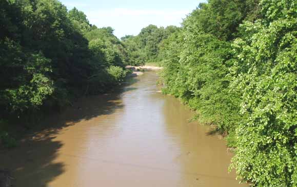 The Loosahatchie River at Arlington. From site (File is